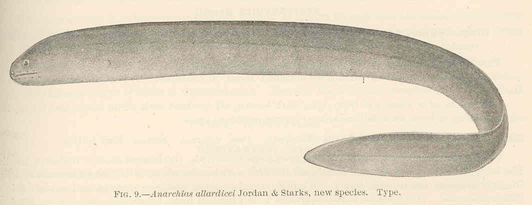 Anarchias allardicei Subject: Eels, Anarchias Tag: Fish